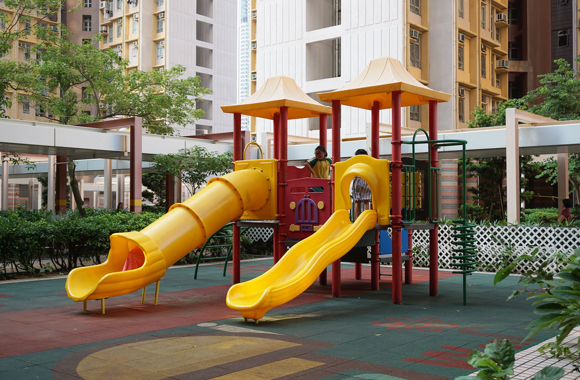 Oi Tung Estate in Shau Kei Wan, Hong Kong.